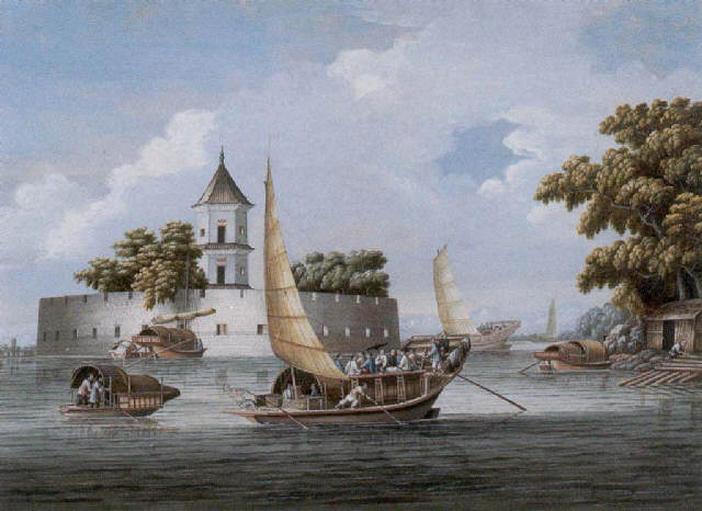 China trade painting of the Dutch folly fort with river commerce.